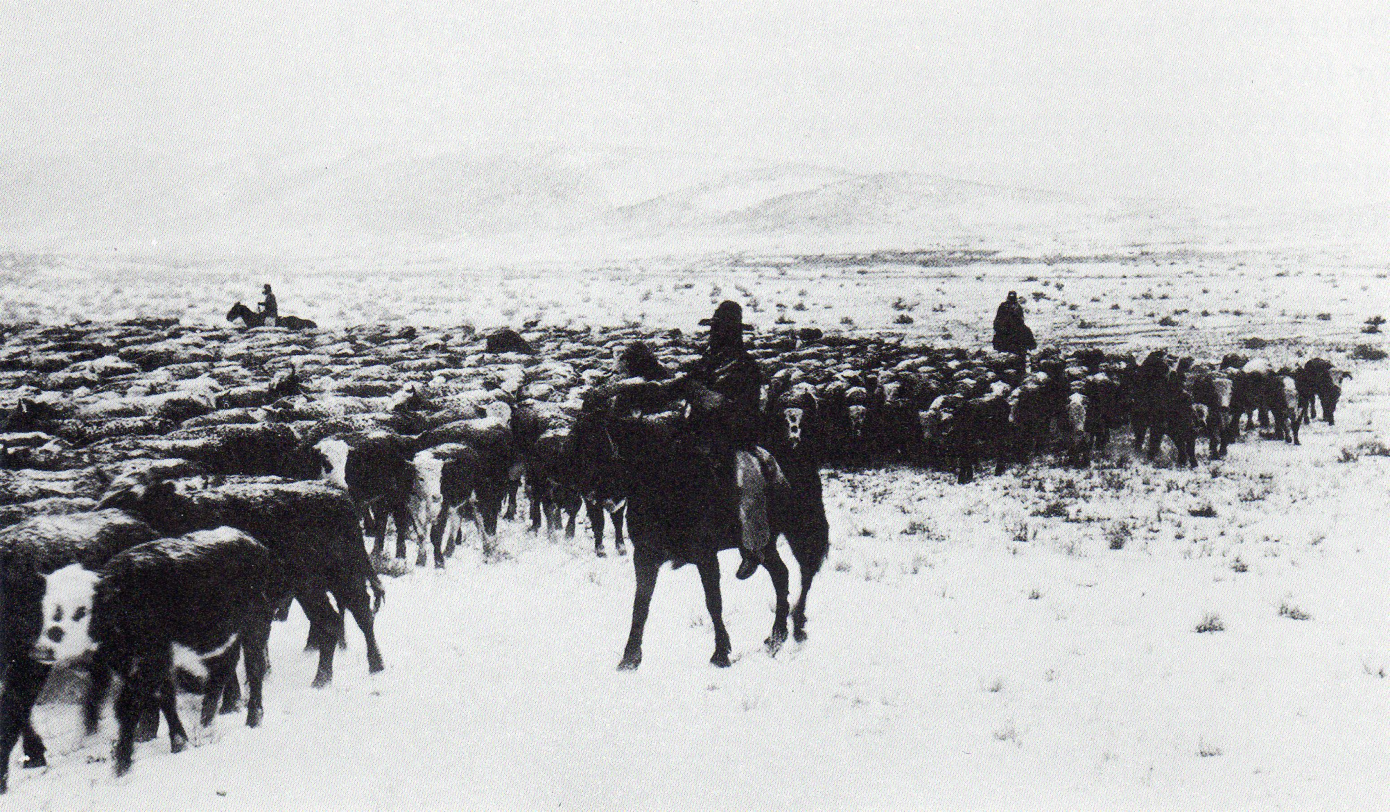 Winter herding increased the challenging tasks and risks for moving cattle to long distances.